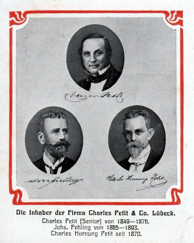 Picture from historic postcard, showing photos and signatures of the proprietors of Charles Petit & Co. in Lübeck (Germany): Charles Petit (1849-1876), Johannes Fehling (1865-1893), Charles Hornung Petit (ab 1870).